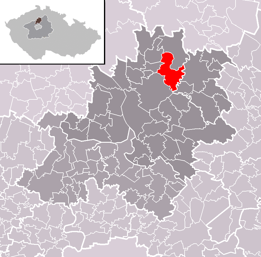 Location of Kokořín municipality within Mělník District and administrative area of Mělník as a Municipality with Extended Competence.